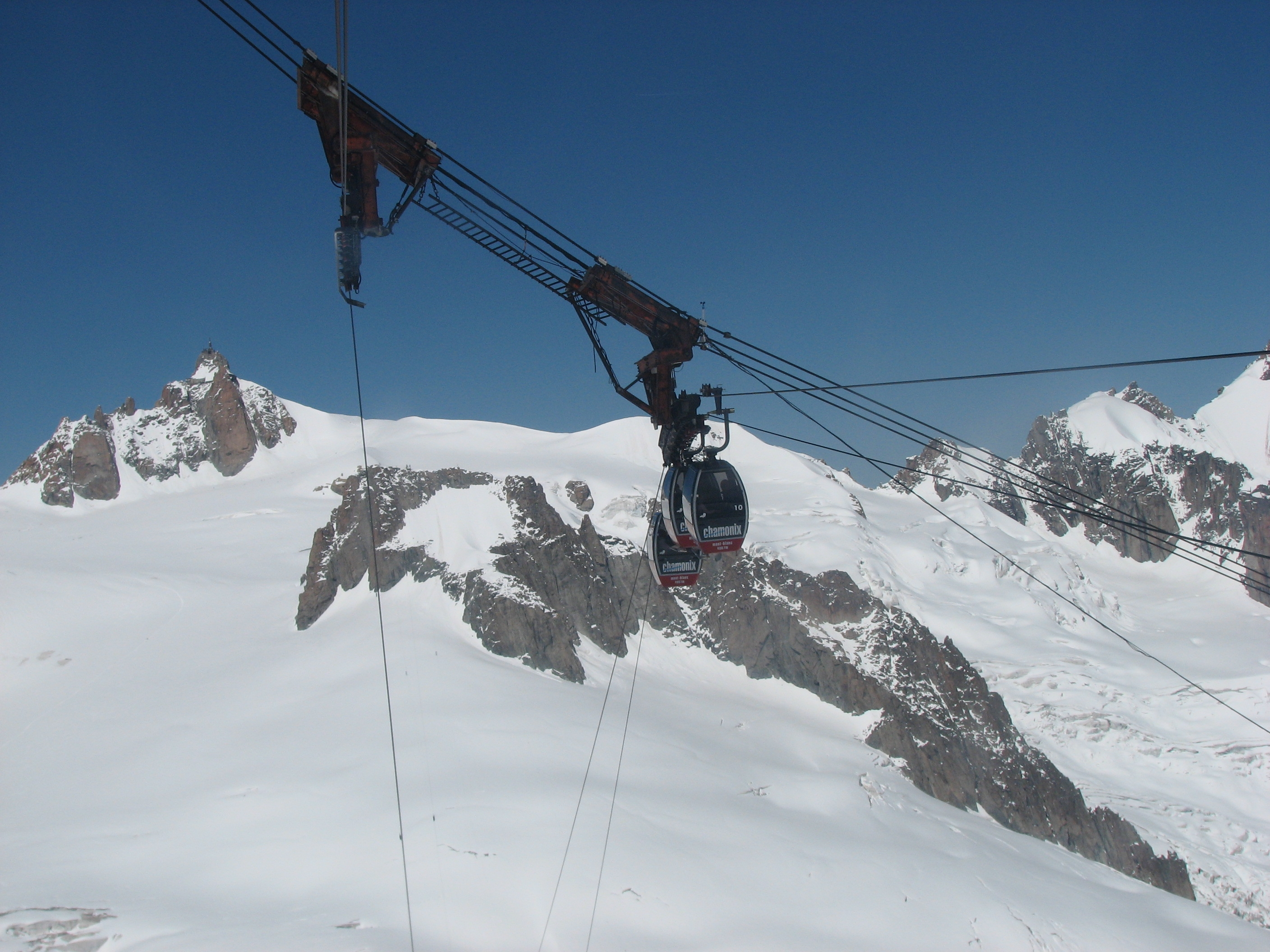 Suspended Support Pillar of Vallee Blanche Aerial Tramway